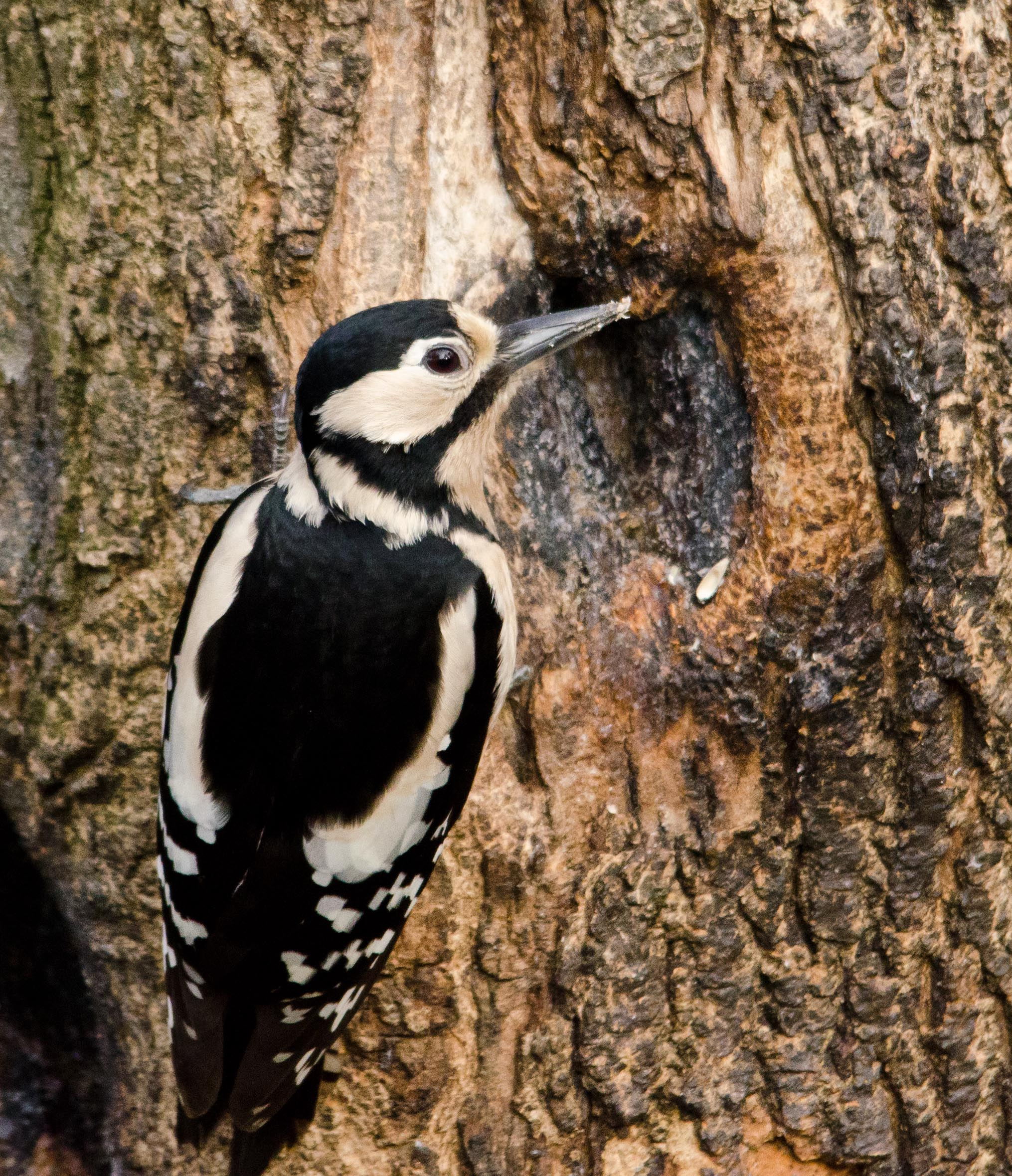 A female Great Spotted Woodpecker Dendrocopos major in WWT Washington, Co Durham, England.